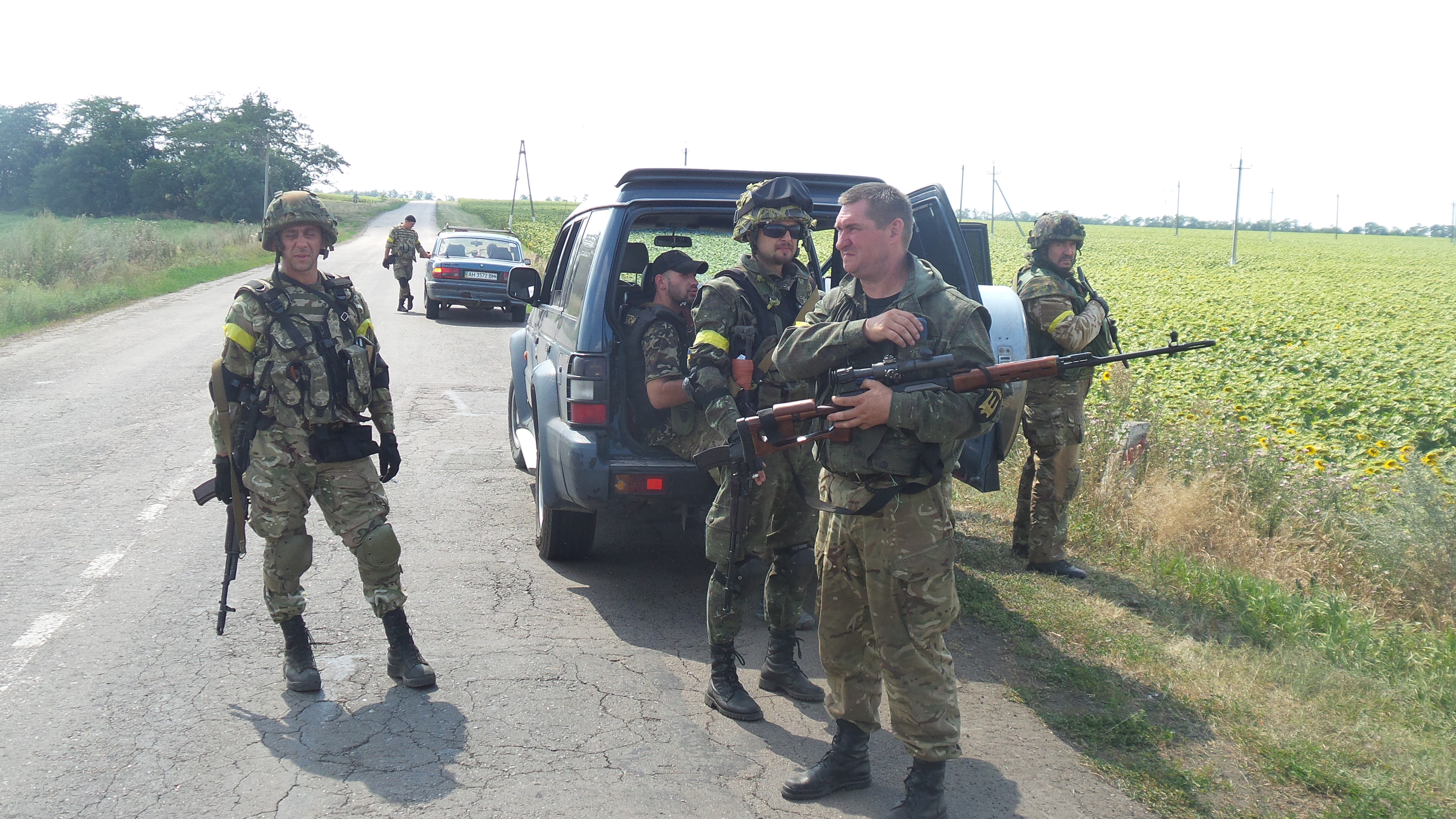 Battalion "Donbas" in Donetsk region, Ukraine